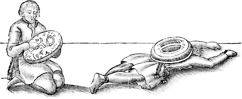 Illustration from Johannes Schefferus' book "Lapponia" from 1673, the first major work about sami culture and history. The illustration shows the use of a sami drum. The man on the right has fell into a trance, or "devils sleep", the temporary description.